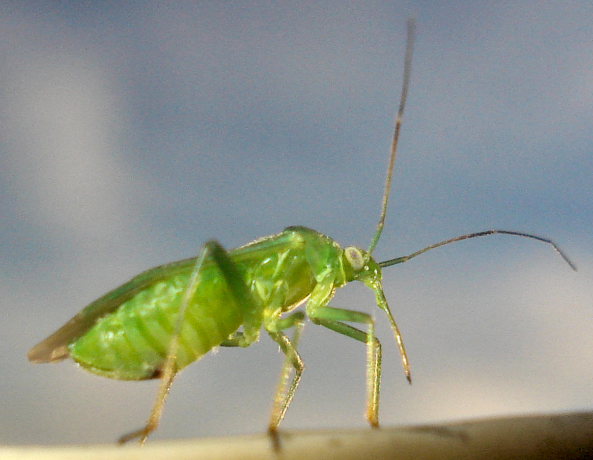 On: Dock Location: Lincoln City Site: Backies wood